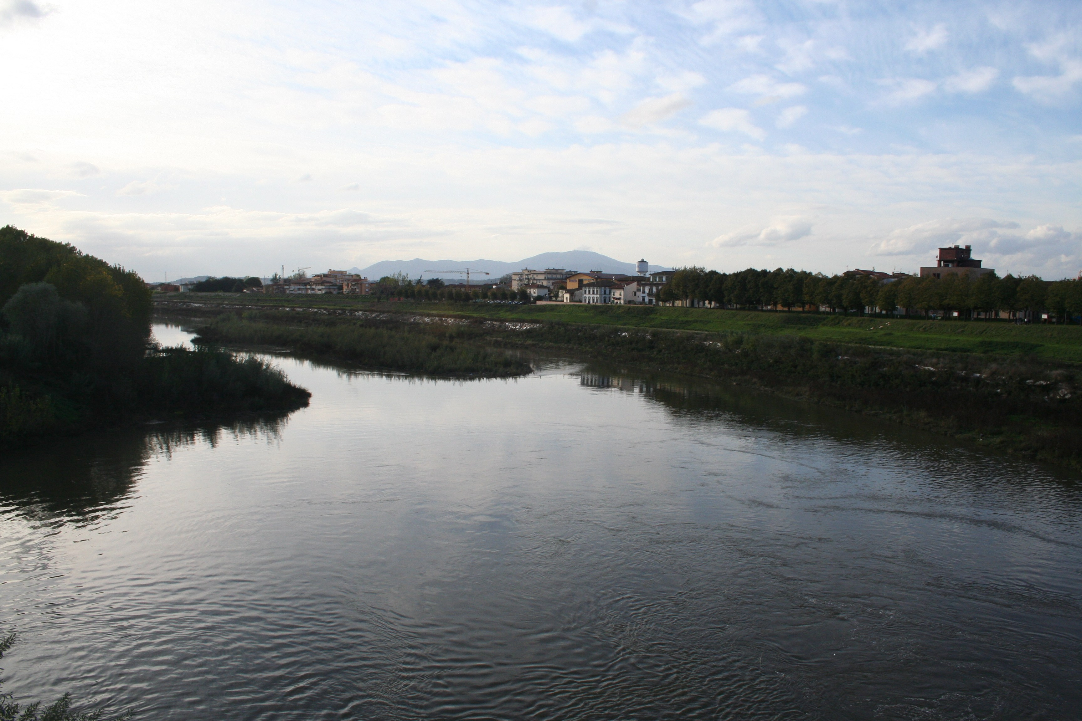 Arno River near Santa Croce sull'Arno